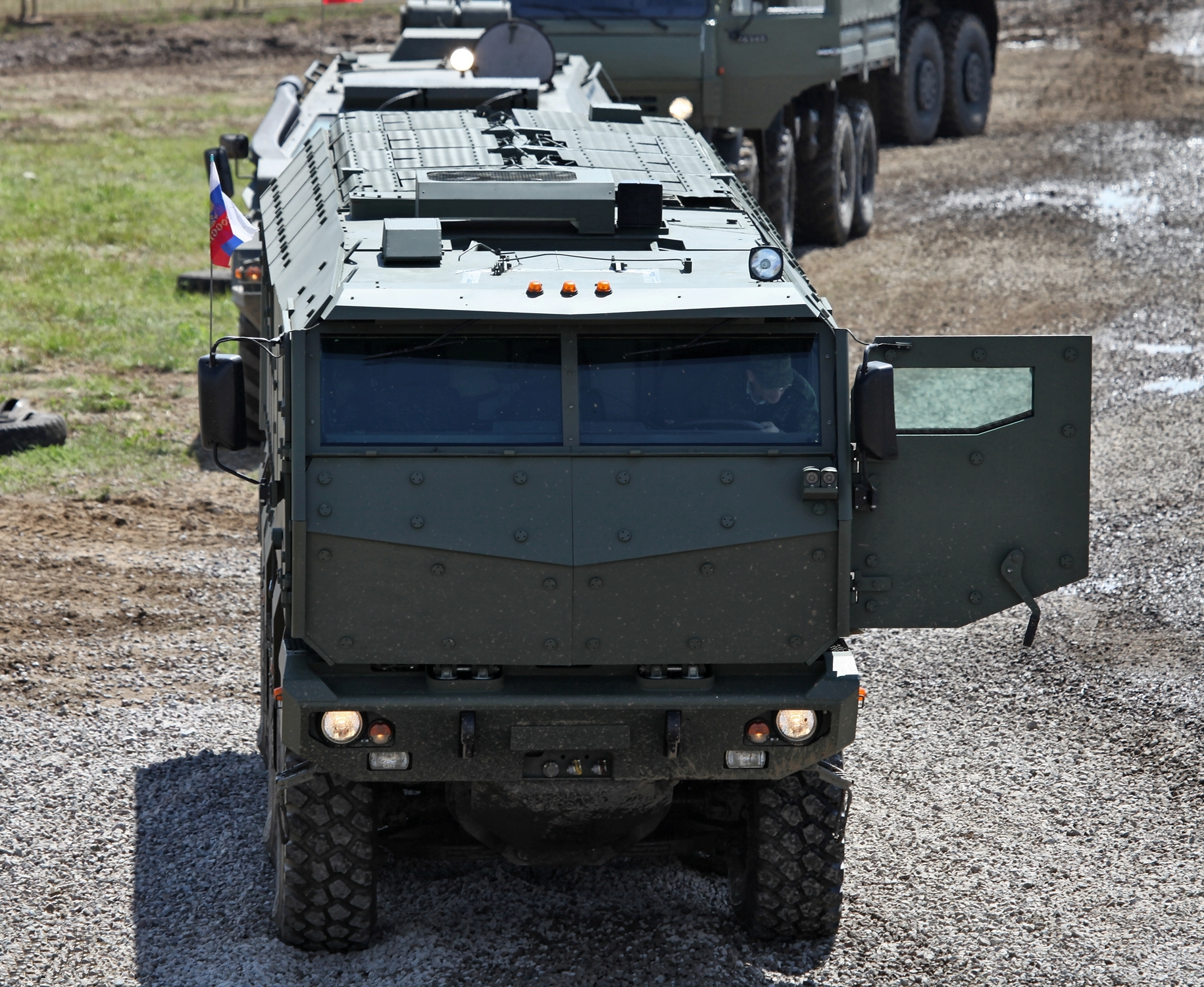 KamAZ-63968 Typhoon at the exhibition Engineering technologies 2012.